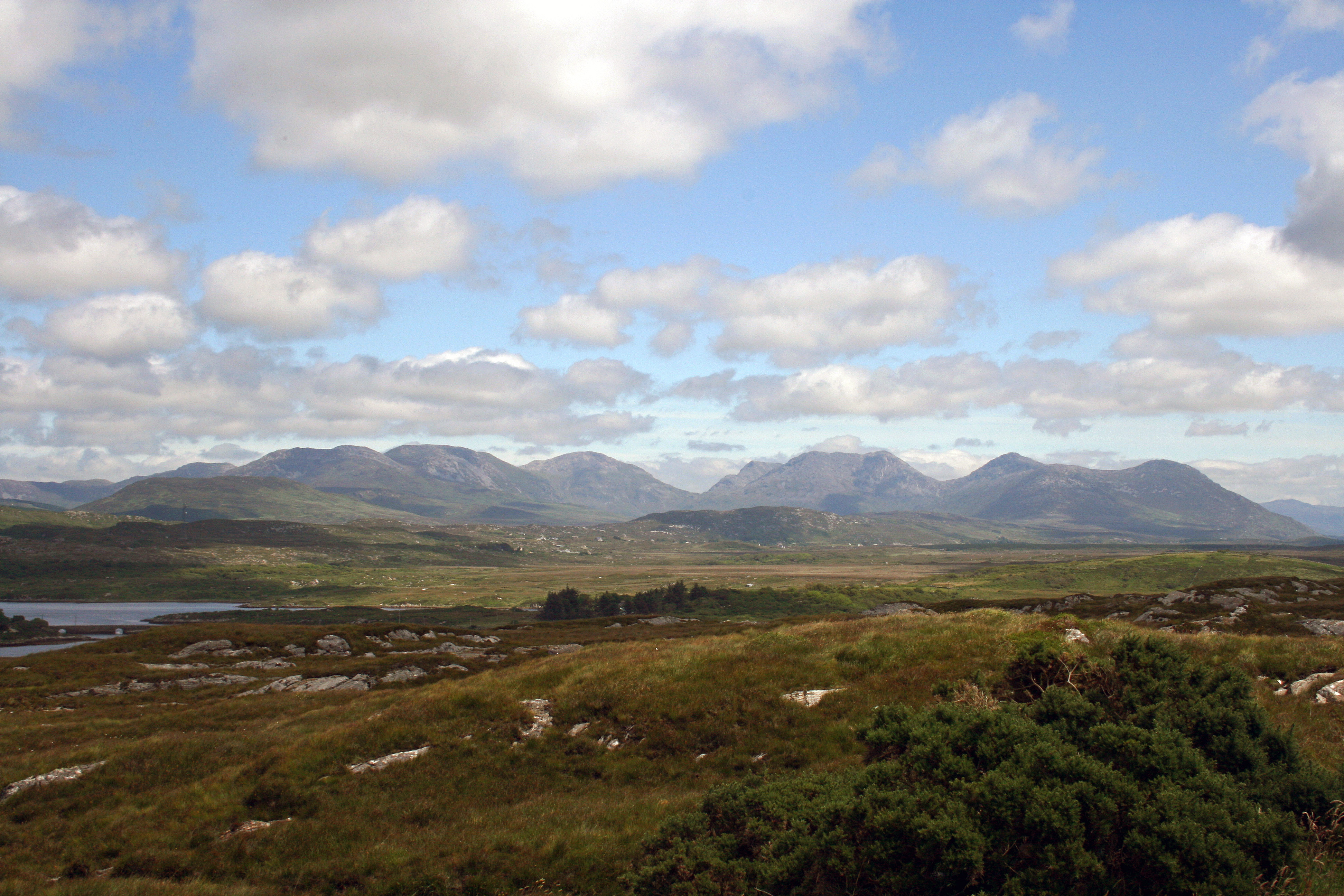 Twelve Bins from a distance